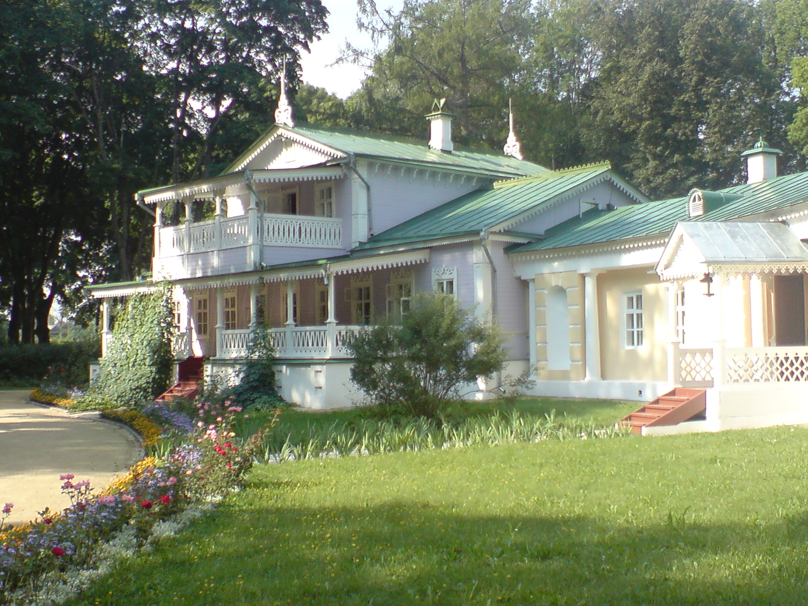 Spasskoye-Lutovinovo, а country estate of Ivan Turgenev.